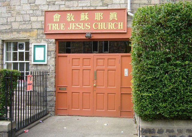 True Jesus Church, Gifford Park The True Jesus Church, founded in Beijing in 1917, serves the Chinese community in Edinburgh. It has 18 congregations in five European countries, 13 of which are in the United Kingdom.